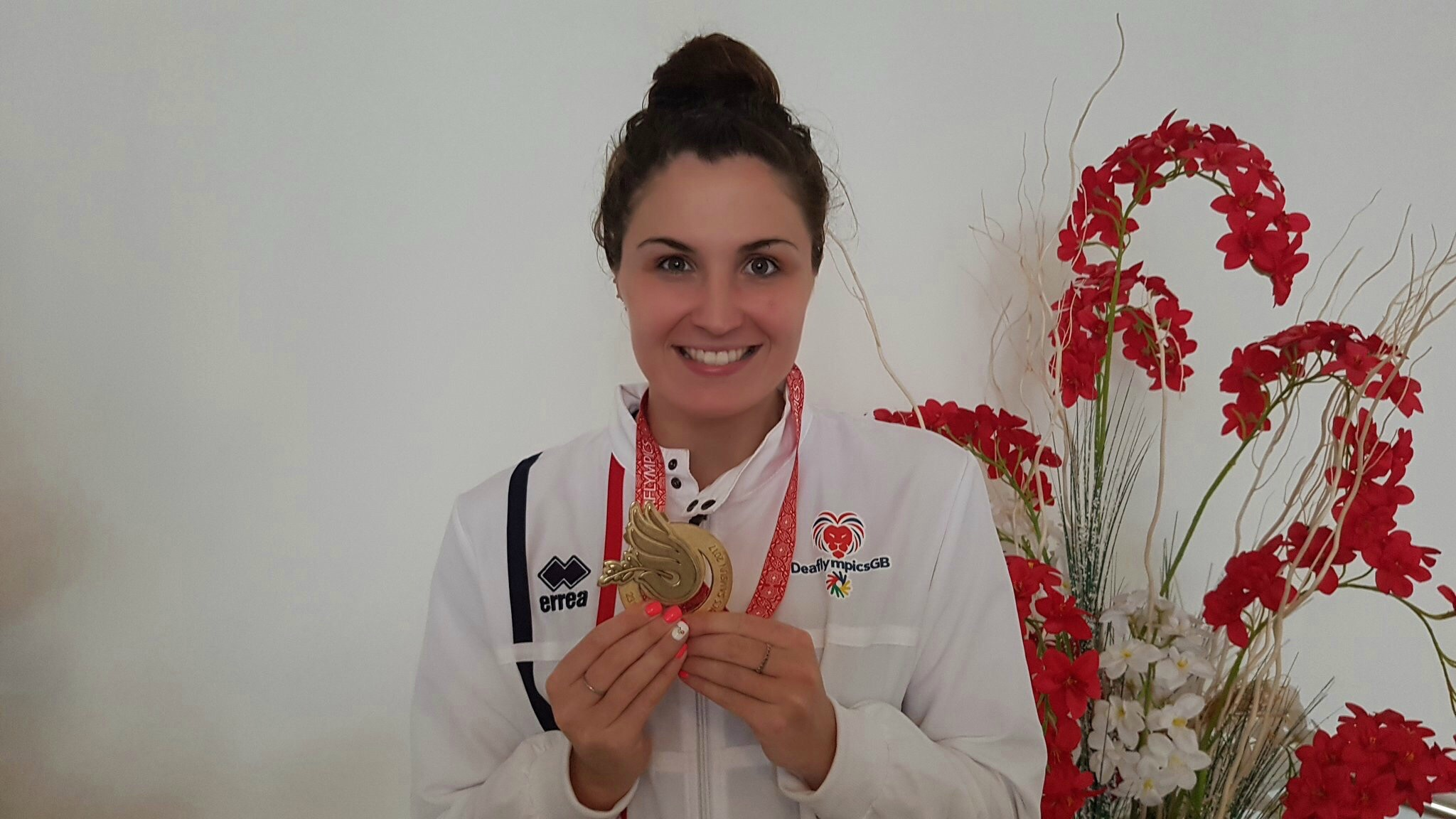 Danii Joyce photo after 50 freestyle gold at Deaflympics 2017